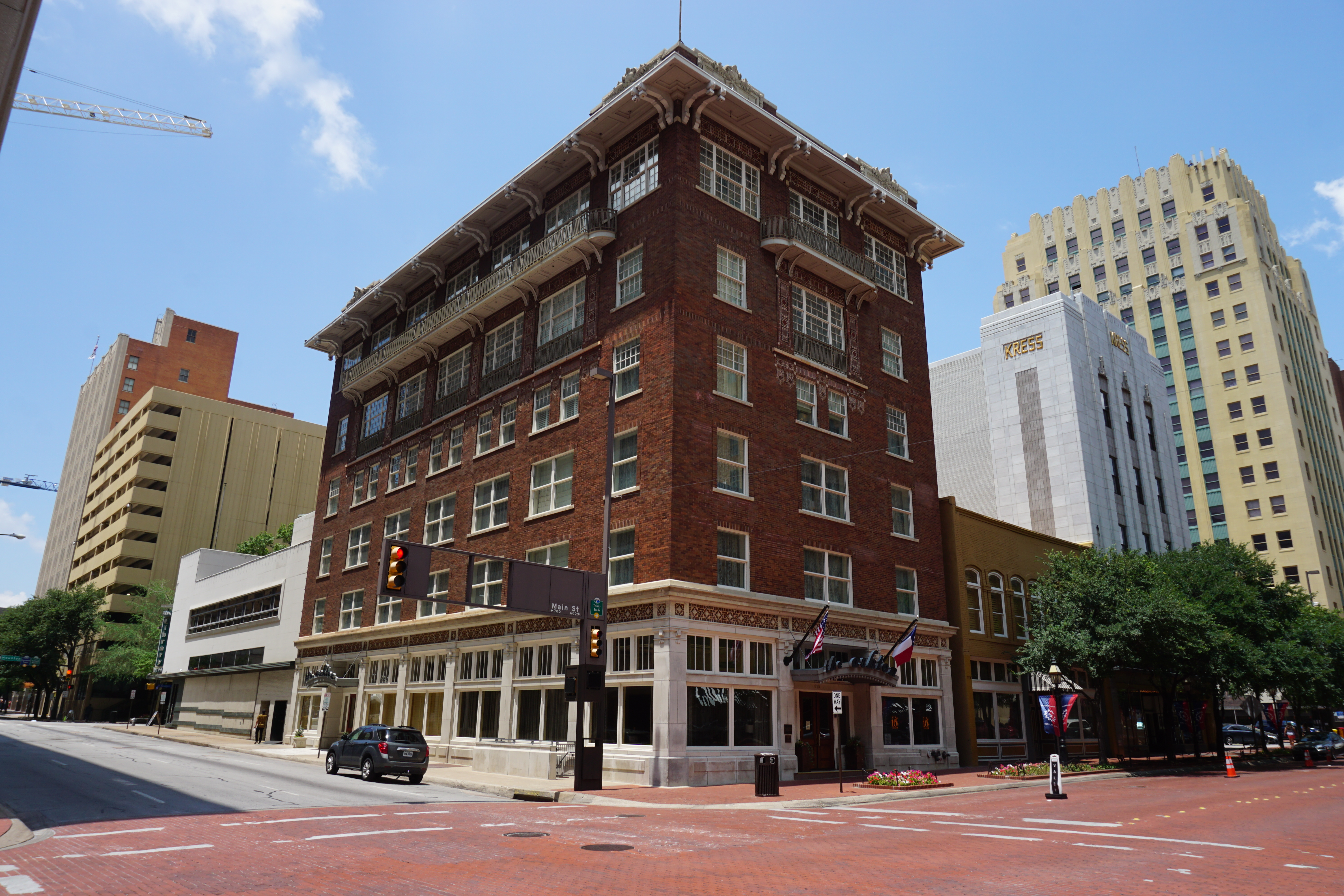 The Ashton Hotel in Fort Worth, Texas (United States).